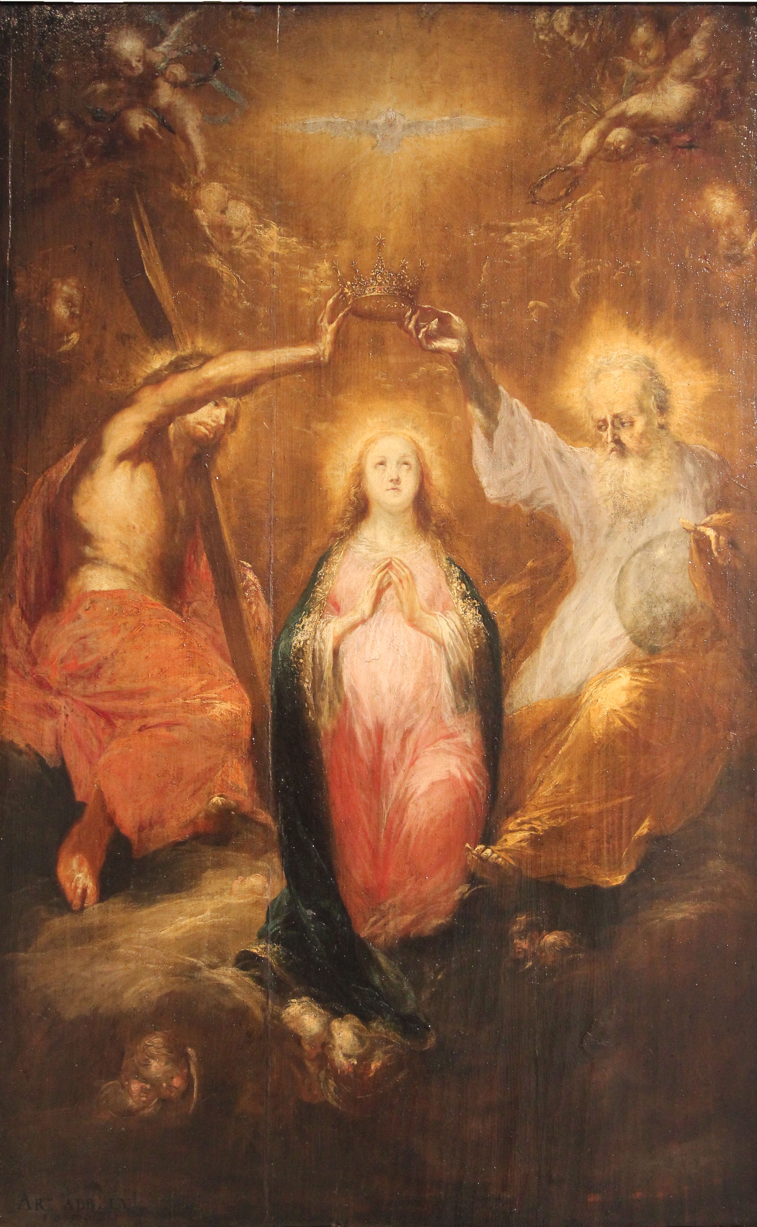 Michael Willman The Coronation of Virgin Mary (1656) from National Museum in Wroclaw (originally in Cistercian monastic church Lubiąż Abbey).